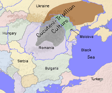 I made this map using Microsoft Paint, based on the map image at File:Europe countries map.png and using data from